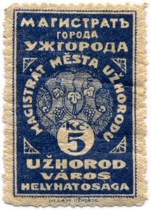 Three languages post stamp Magistrát mésta Užhorodu Užhorod város Helyhatosaga